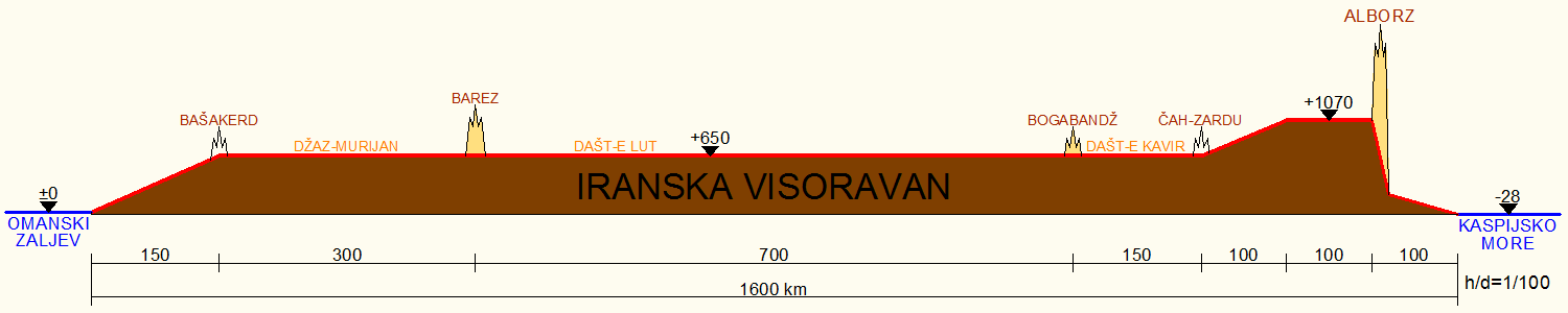 Iranrood Section (Serbo-Croatian description)